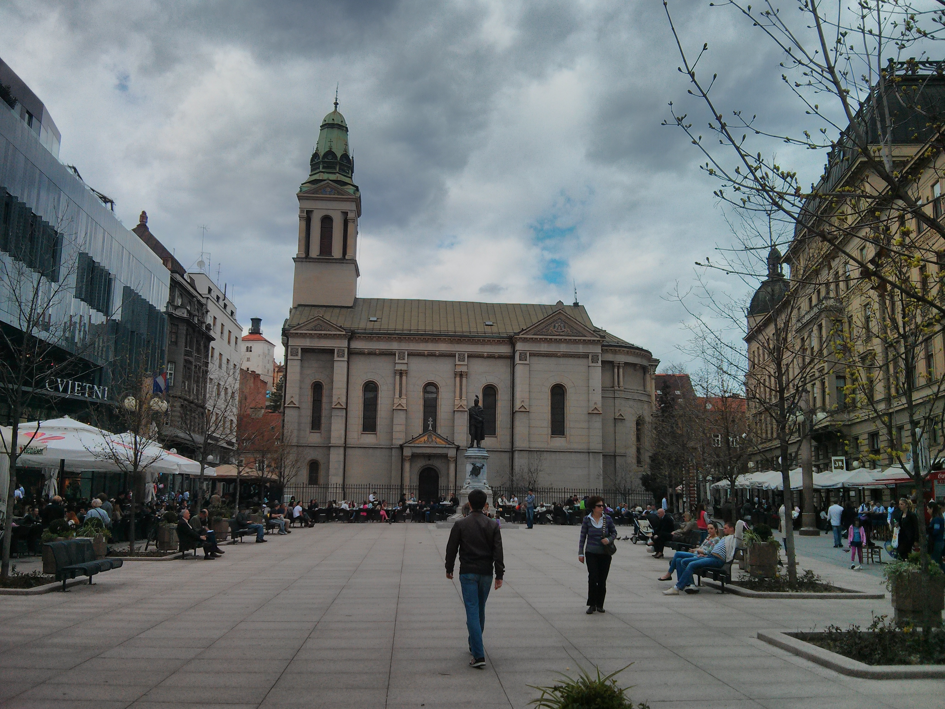 Serbian Orthodox church in Zagreb, Croatia.